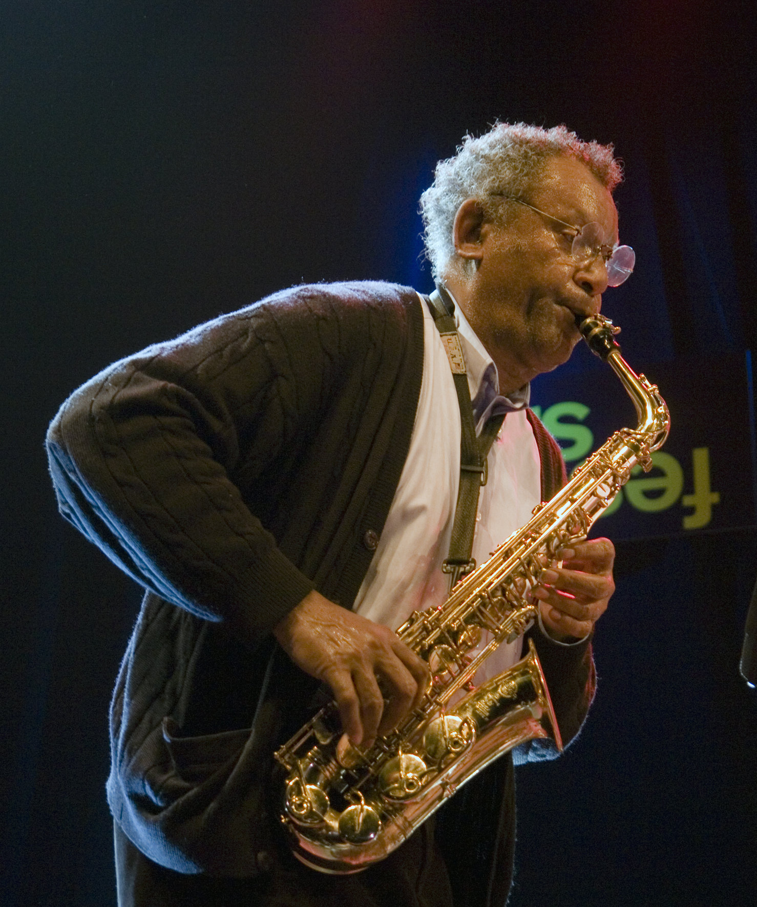 Braxton, Anthony